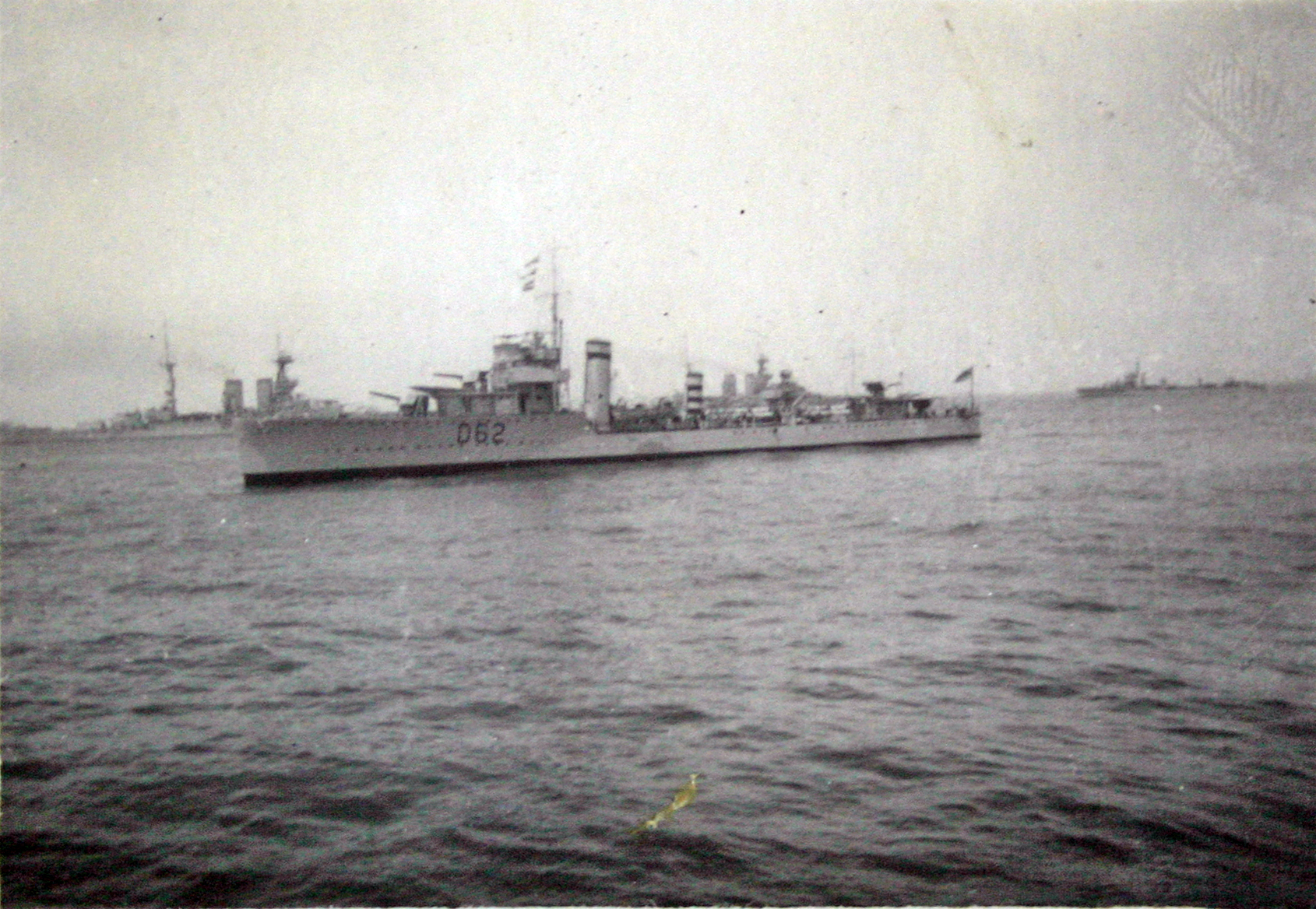 HMS Wild Swan - RN Destroyer in Mediterranean, taken from the Royal Naval battleship HMS Benbow in 1925.